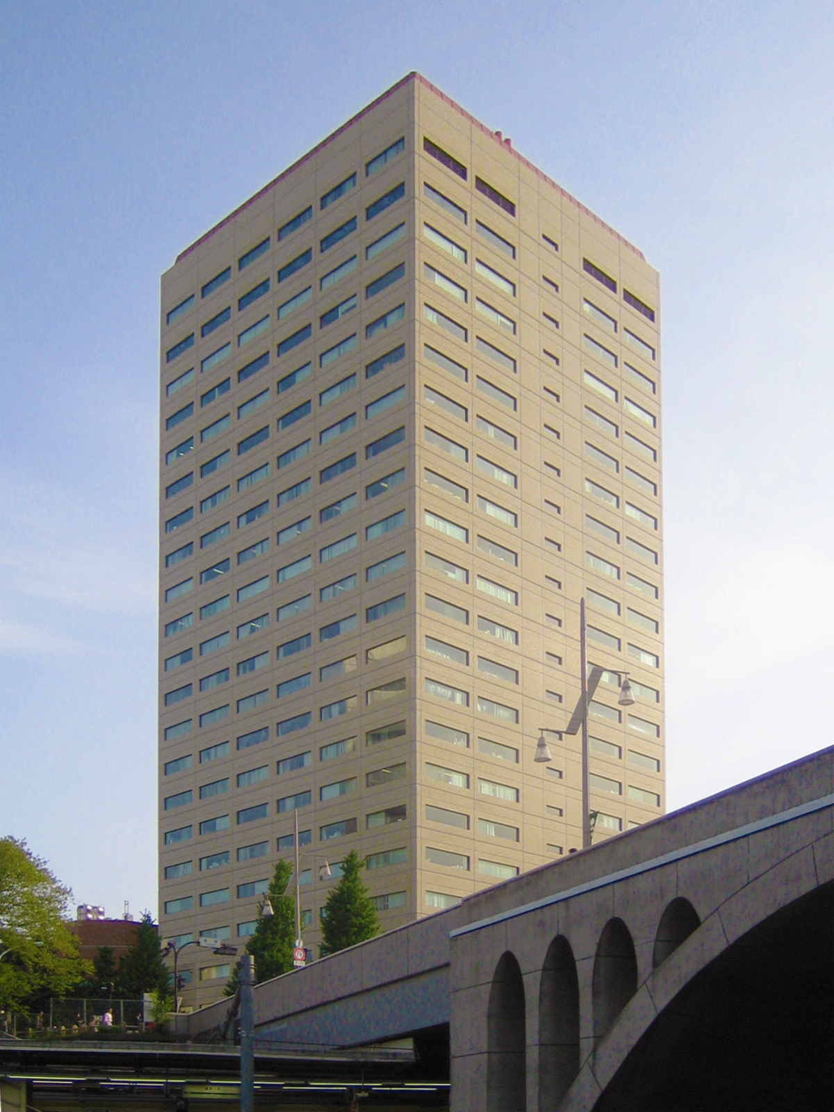 Nihon Shuppan Hanbai (日本出版販売), in Chiyoda, Tokyo, Japan